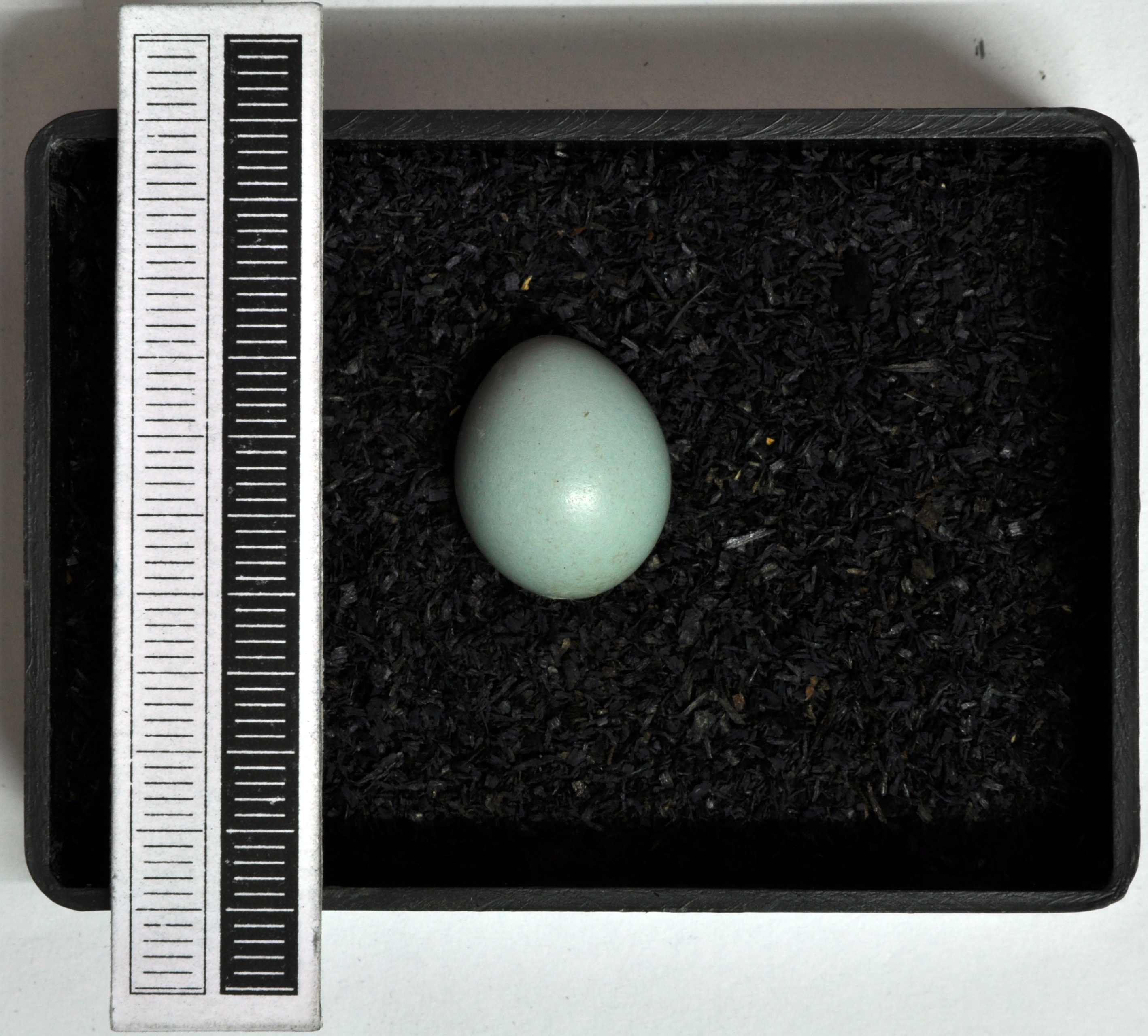 Whinchat Saxicola rubetra, egg, Coll. Museum Wiesbaden, Origin: Värmlands Län, Sweden, 01.06.1963, leg. W. Abelmann